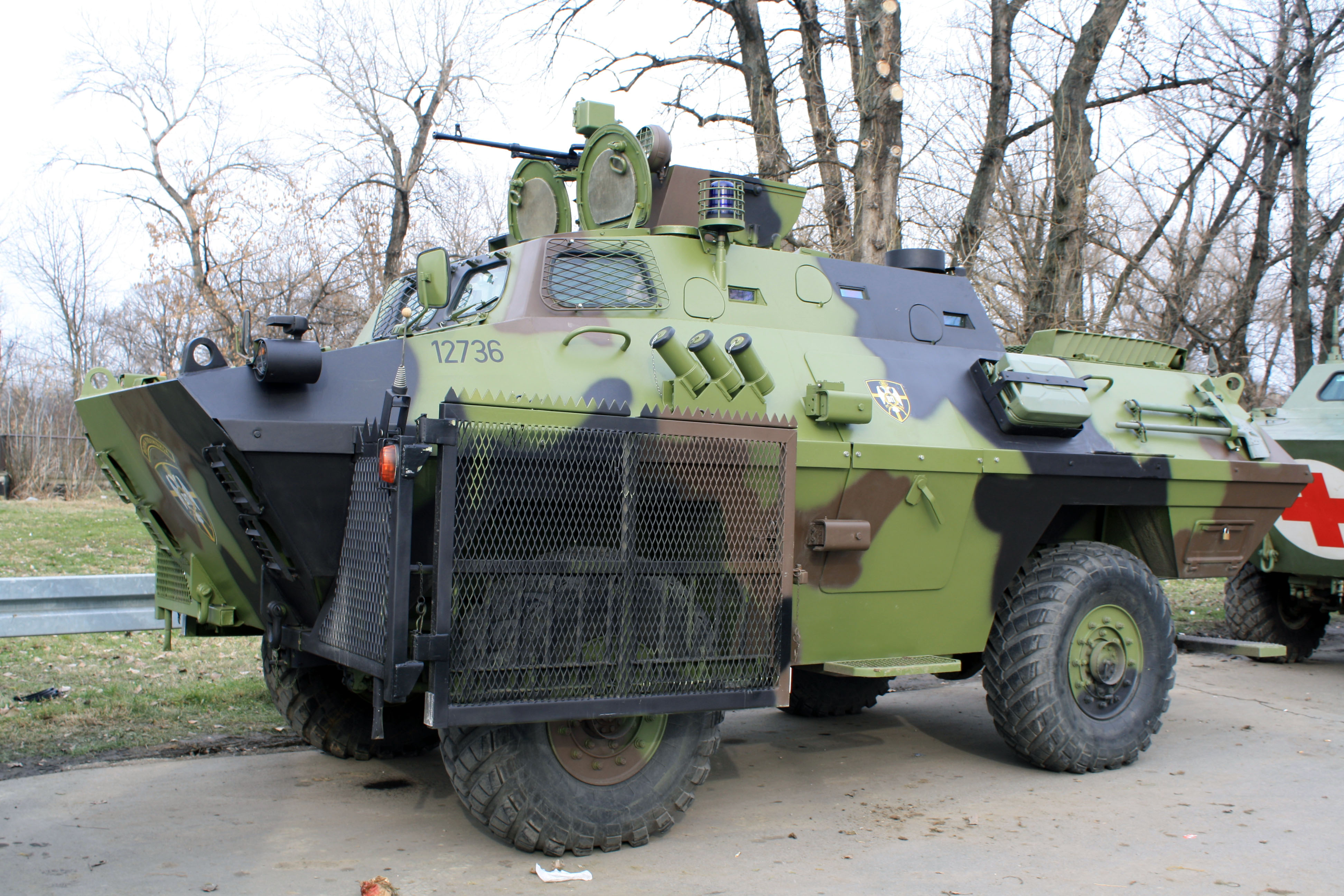 BOV-VP armoured personnel carrier of Serbian Army Military Police on display after military exercise "Ušće 2011".